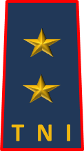 Rear Admiral rank insignia that used on daily uniforms of Indonesian Navy (holder of command)